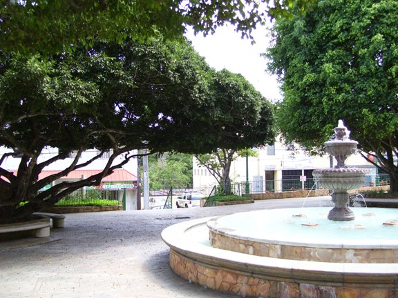 Town square of Aguas Buenas